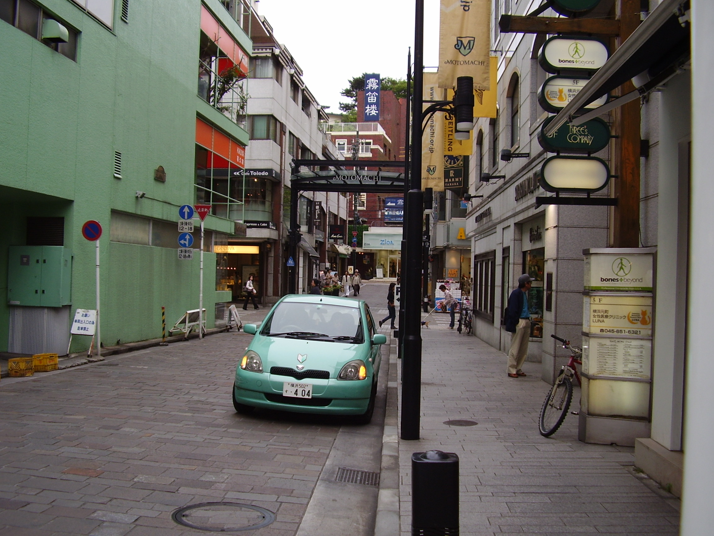 An image of the Motomachi area of Yokohama, Yokohama Prefecture, Japan